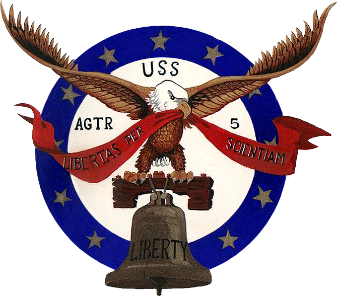 Insignia of the U.S. Navy signals intelligence ship USS Liberty (AGTR-5).